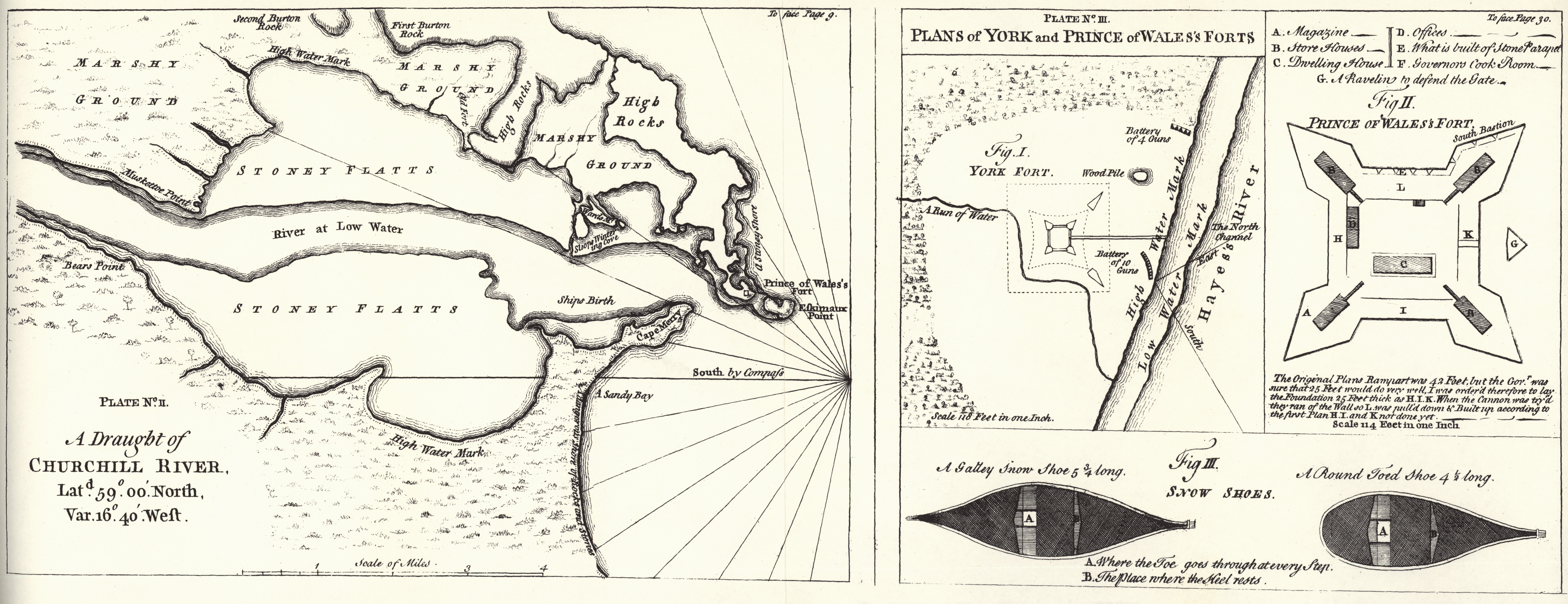 Jefferys, Thomas. A Draught of Churchill River Lat'd. 59°00'North, Var 16°40 [facisimle]. 1:76,032. In: Joseph Robson. An Account of Six Years Residence in Hudson's Bay, From 1733 to 1736 and 1744 to 1747. [London]: Printed for J. Payne and J. Bouquet in Pater-Nofter-Row, [1752], plate No. II. As reproduced by, S.R. Publsihers Limited, Johnson Reprint Corporation 1965.